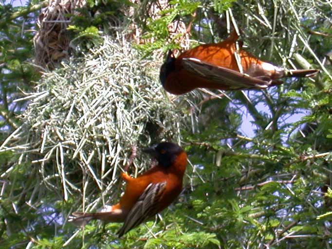 Two male ploceus rubiginosus. Picture taken in Namibia. en: chestnut weaver nl: kastanjewever